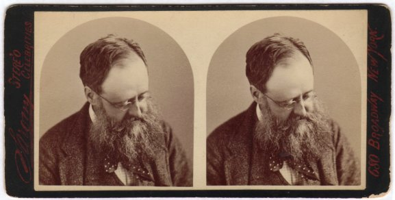 Stereo photographs of Wilkie Collins (1824-1889) in 1874, aged 50, by Napoleon Sarony (1821-1896).